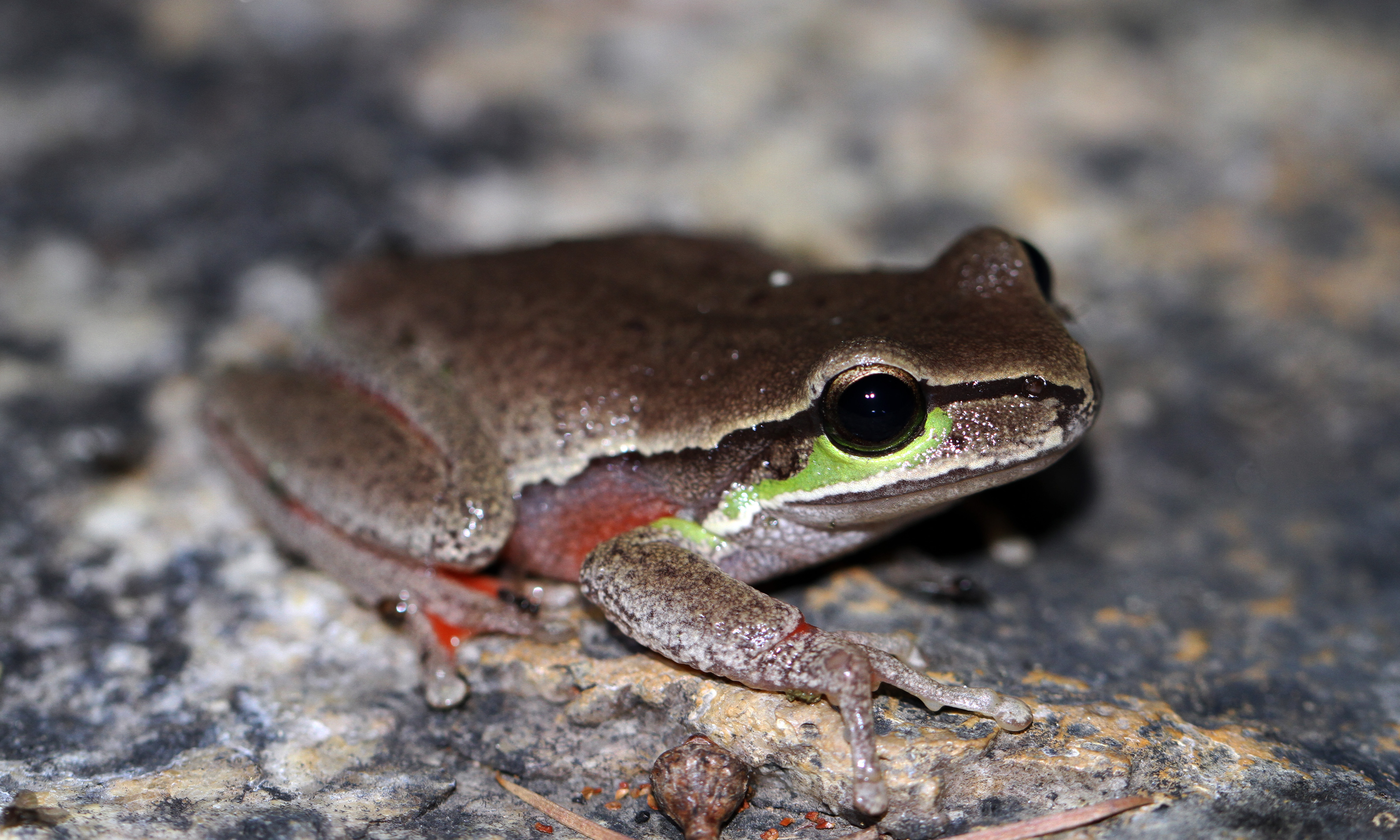 East Gippsland, Vic.